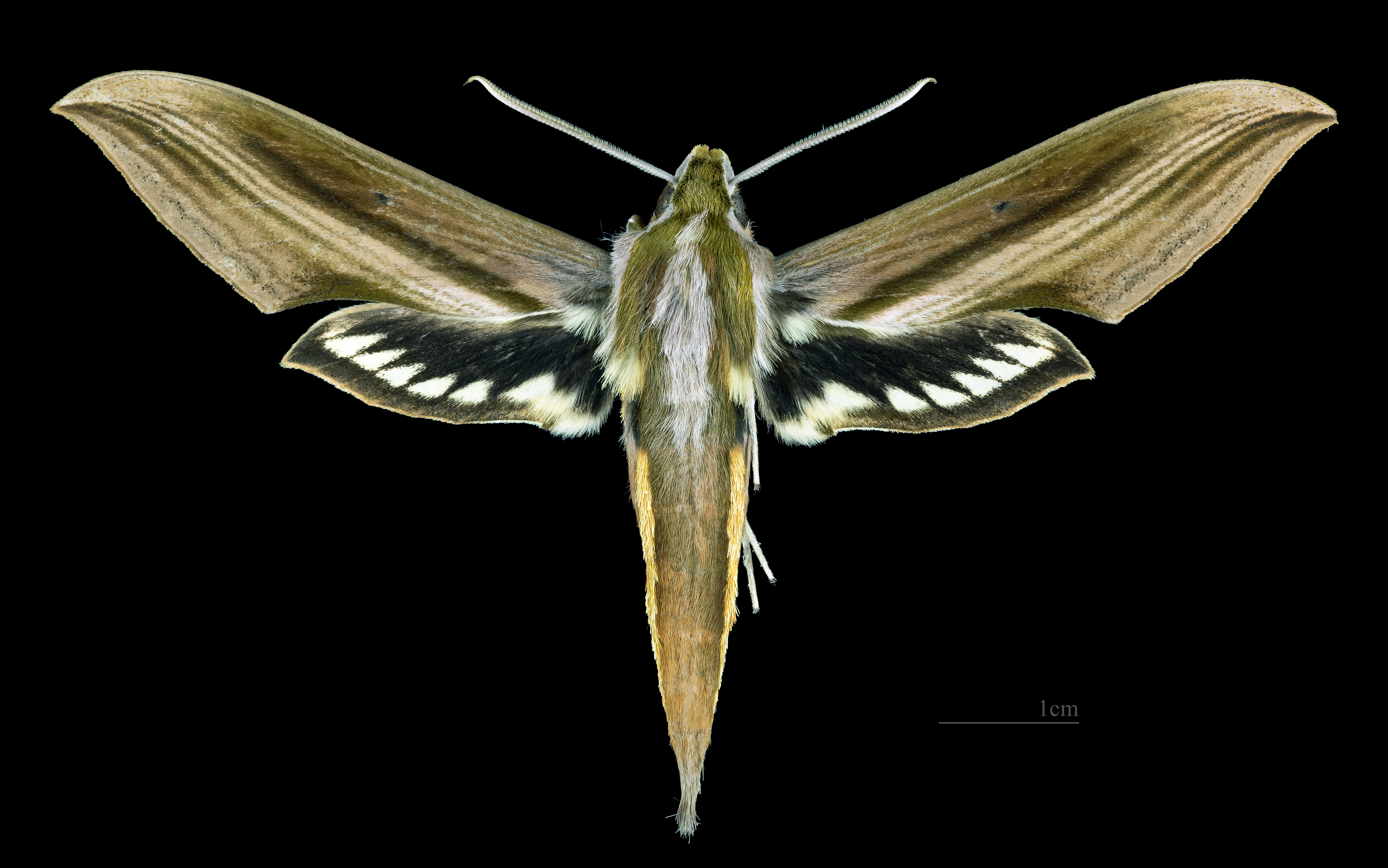 Xylophanes schreiteri - Dorsal side Collection of the Mathematician Laurent Schwartz